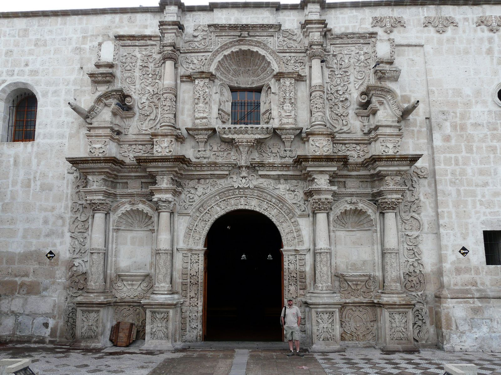 San Agustin Church.